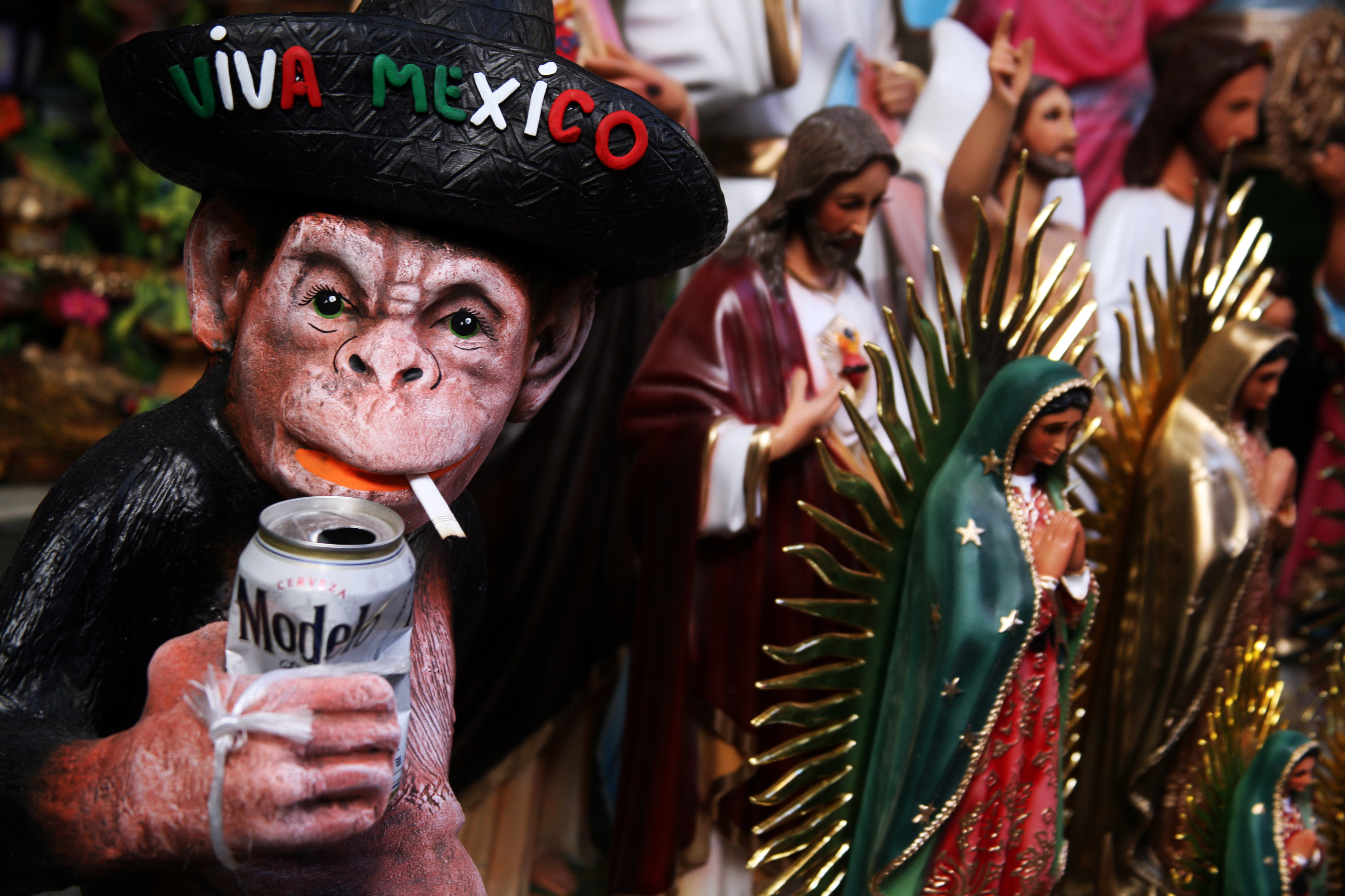 Photograph of a street stand of Mexican curious items. Mexican curiosities range from the artistic, the colorful, humorous and religious. Here we have humorous, colorful and religious content.